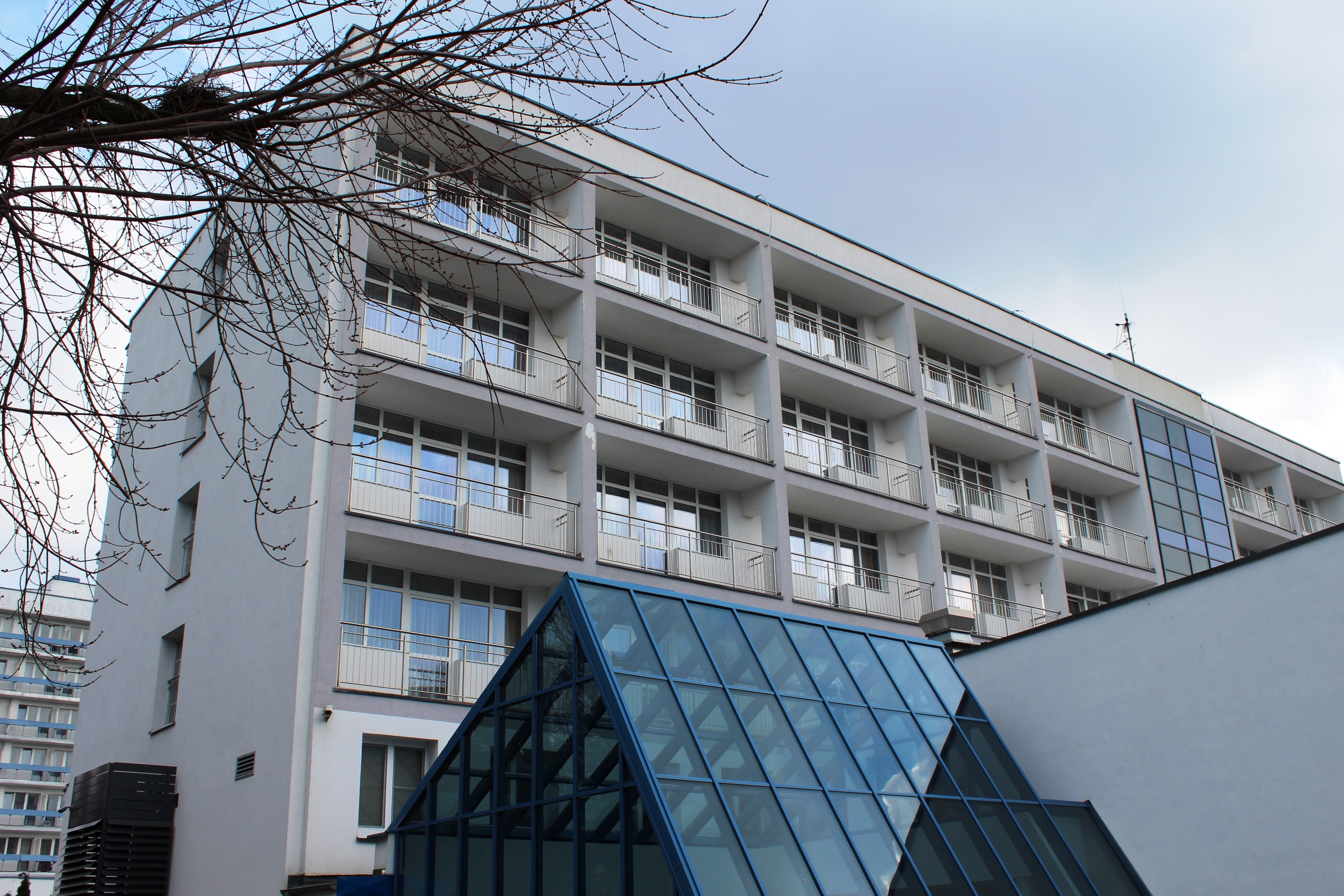 Phoenix Sanatorium in Kołobrzeg